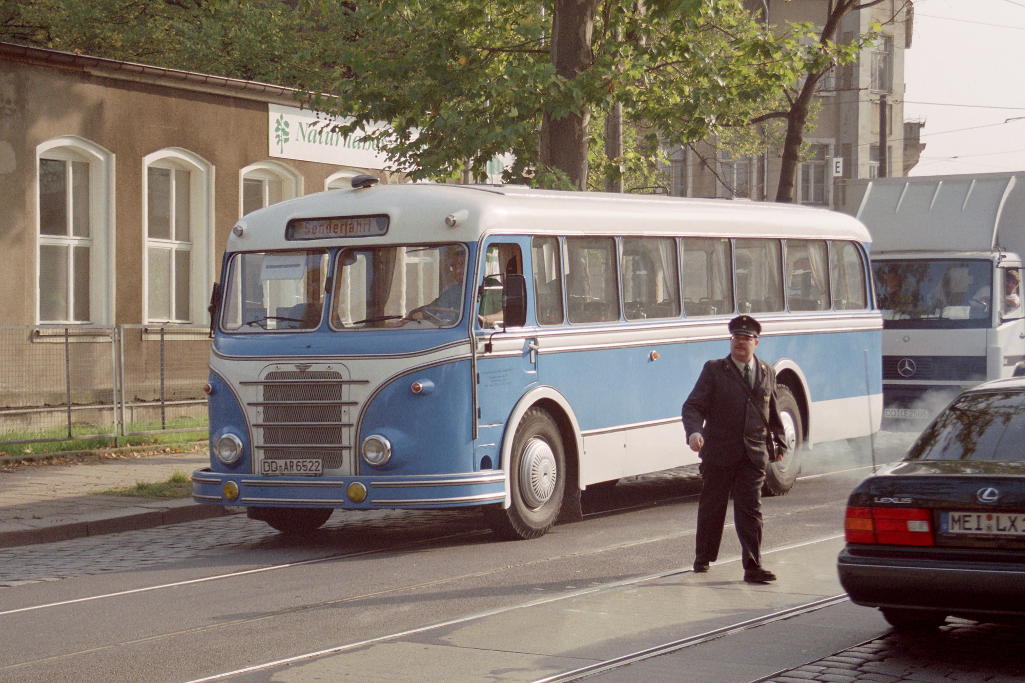 Bus type H6B built in Werdau (East Germany), taken in late summer 1998 in Dresden